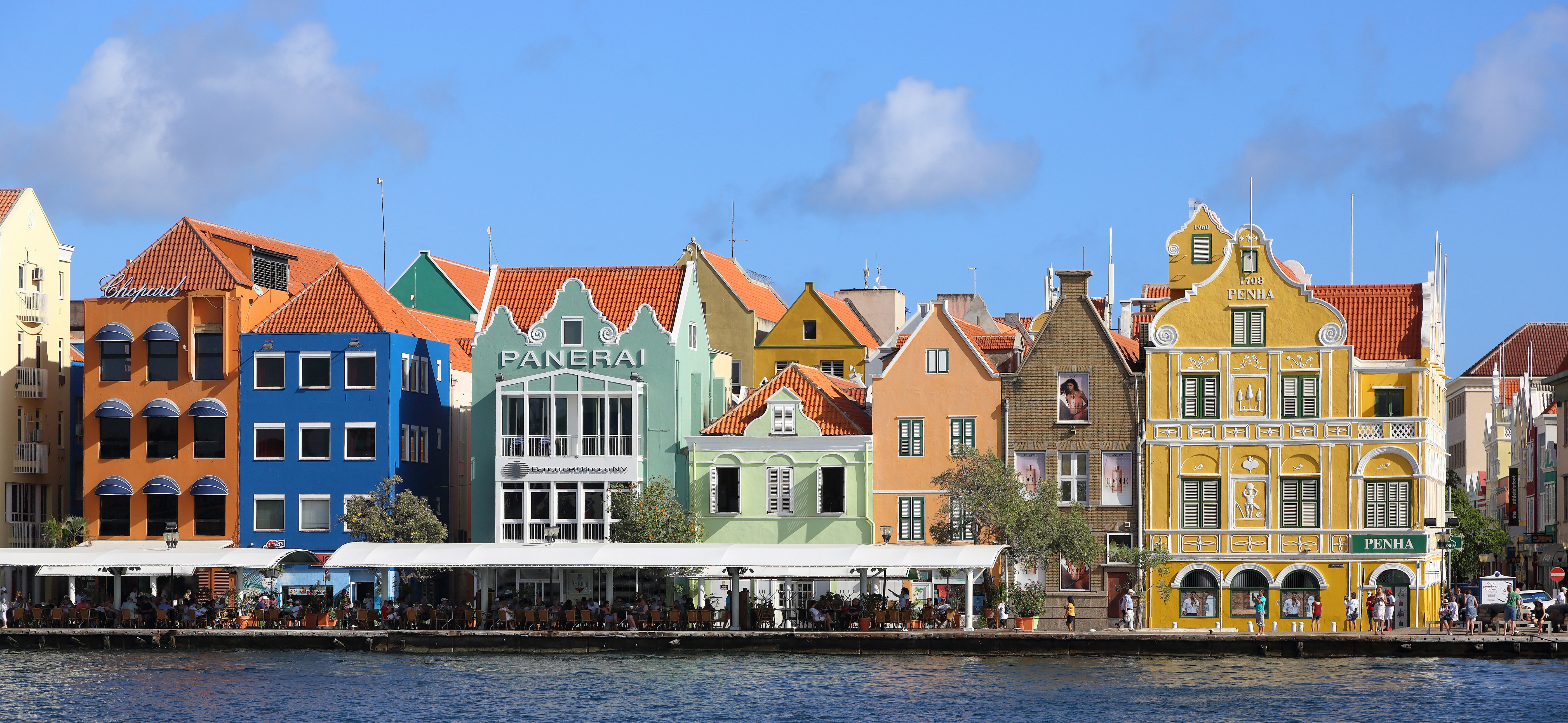 Dutch colonial architecture - including Penha Building from 1708 - on Handelskade, a historic waterfront in the district of Punda, Willemstad, the capital of Curaçao.